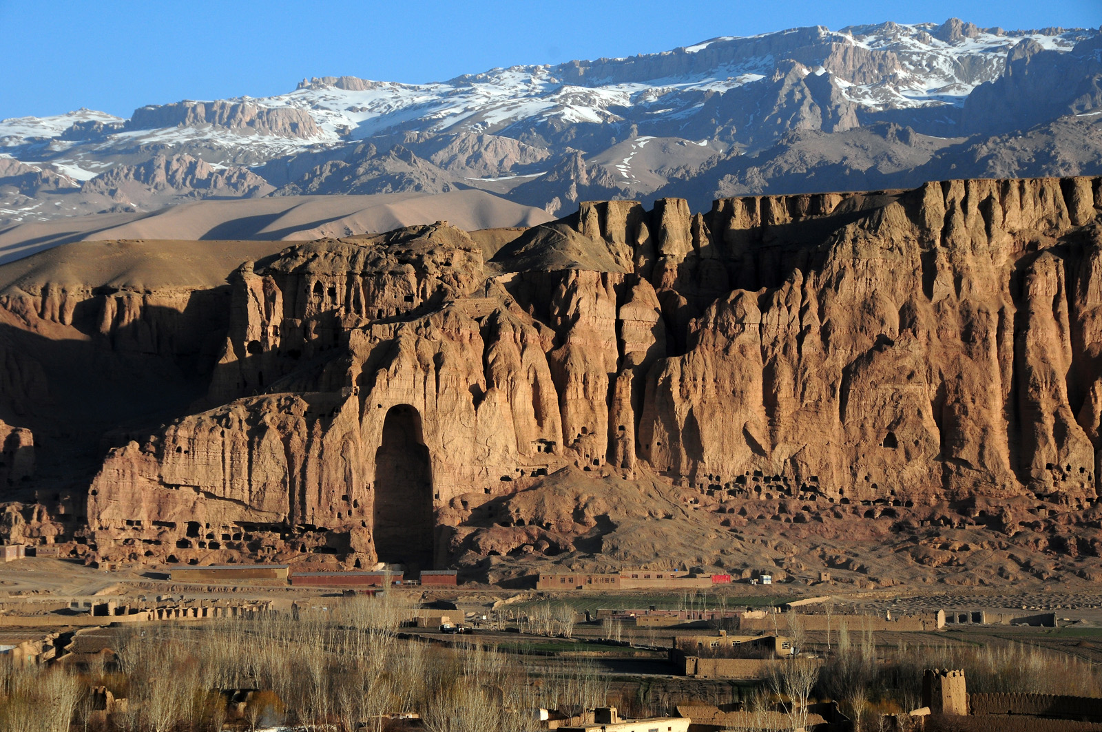 Bamyan Valley is home to the giant ancient Buddha statues, at least what is left of them after the Taliban destroyed them in 2001. They valley is stunning with a rich history, some of it very prosperous and powerful, other times tragic and violent (Ghengis Khan destroyed it in the 13th century).